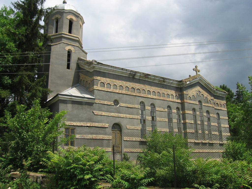 Church "Saint Paraskeva" in village Gagovo. Bulgaria